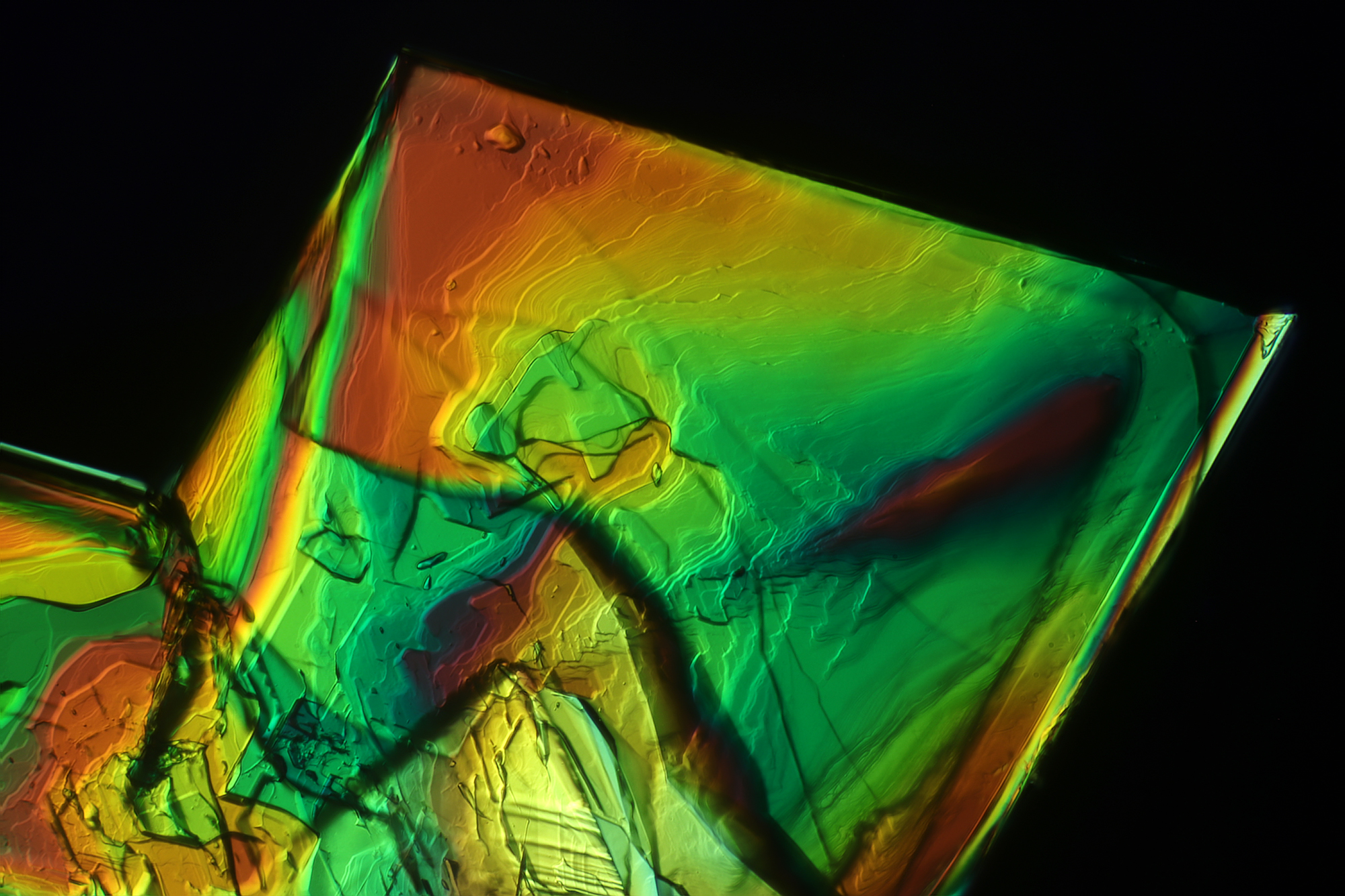 Potassium ferricyanide, microscopic, polarized light